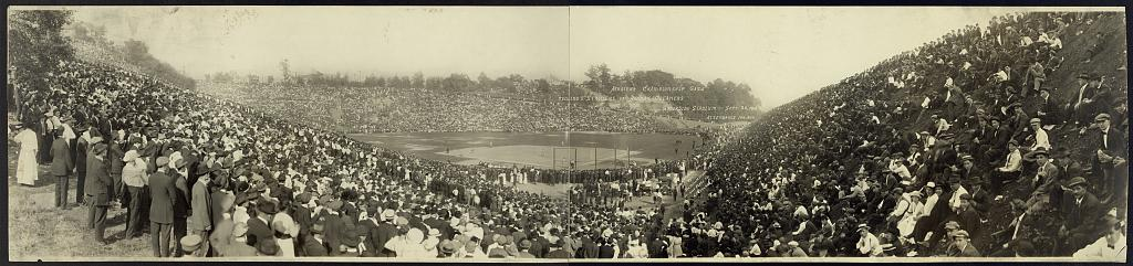 Amateur championship game, Telling's Strollers vs. Hanna's Cleaners, Brookside Stadium, Sept. 20, 1914, attendance 100,000